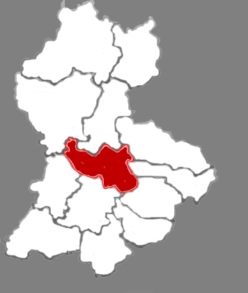 Location of Lishi district in Lüliang City, China